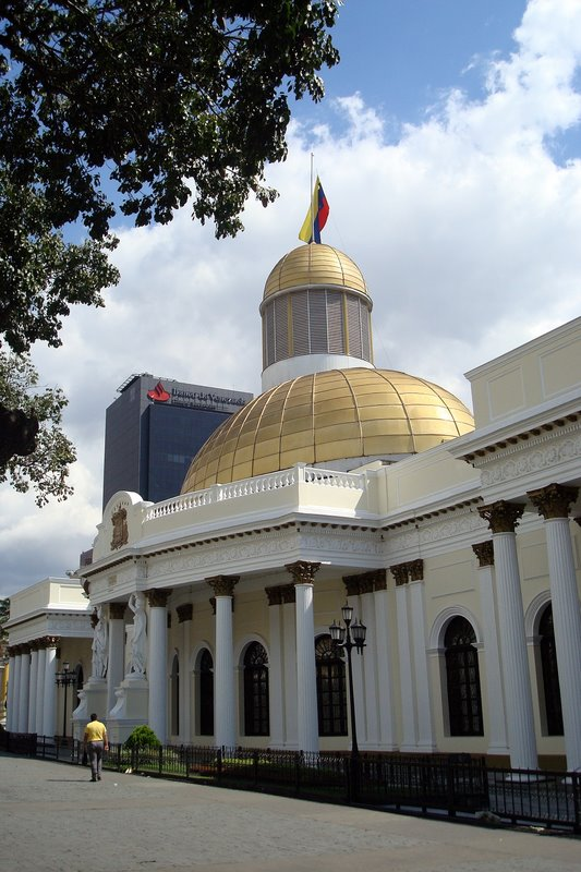 Legislative Palace, Caracas, Venezuela.